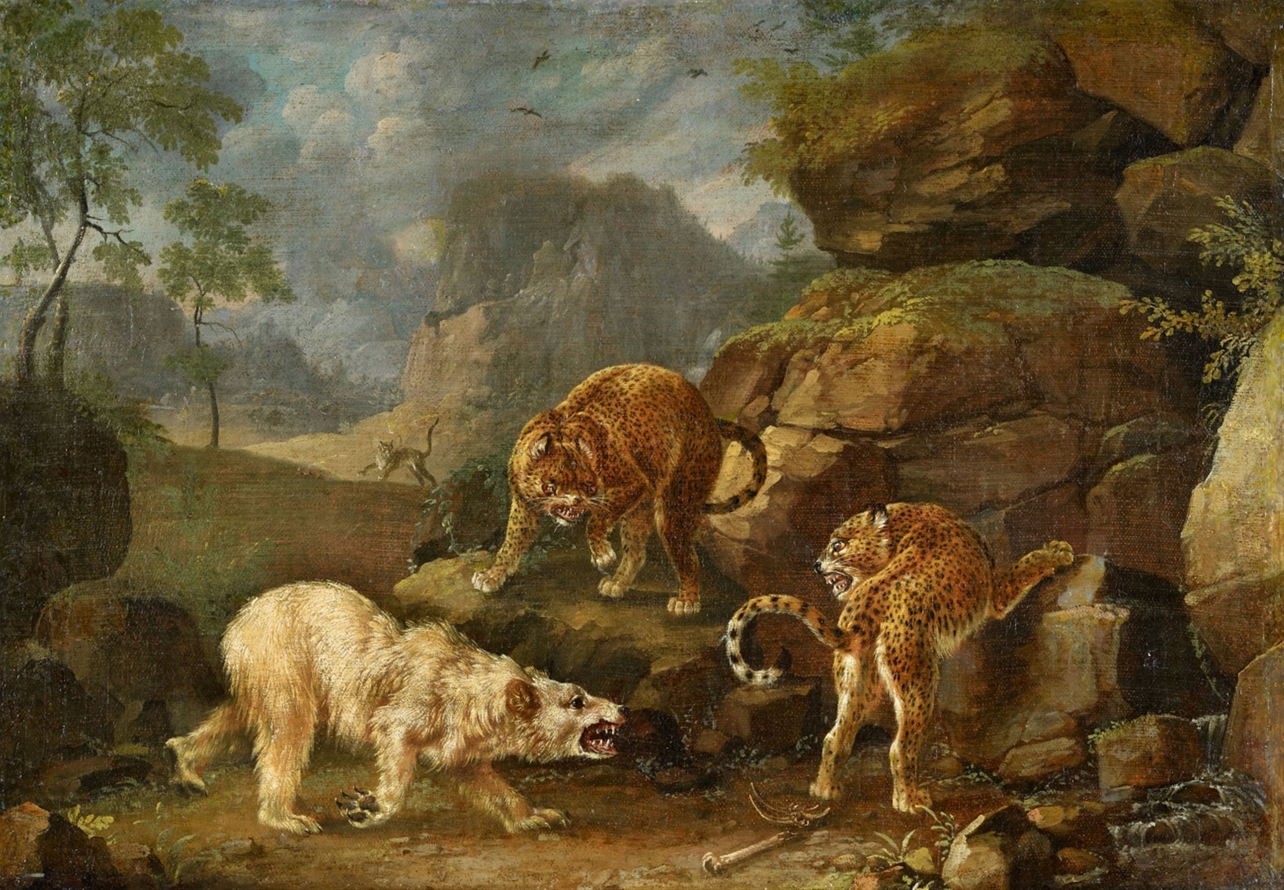 Two Leopards Attacking a Polar Bear by Johann Elias Ridinger, oil on canvas, 42.5 x 61.5 cm.